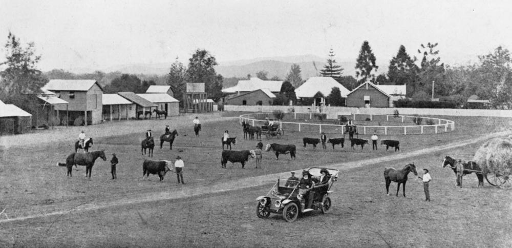 View of the showring at Bellevue Station, Queensland